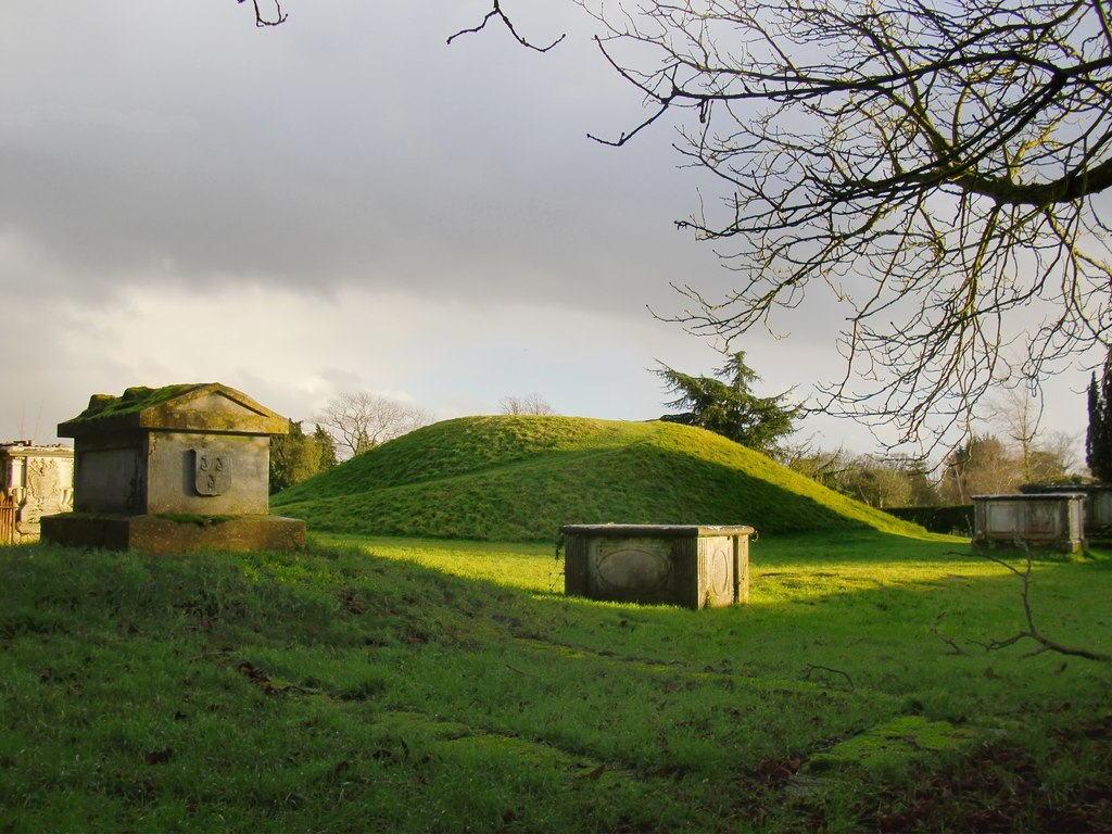 Taeppa's Mound in the old churchyard, Taplow